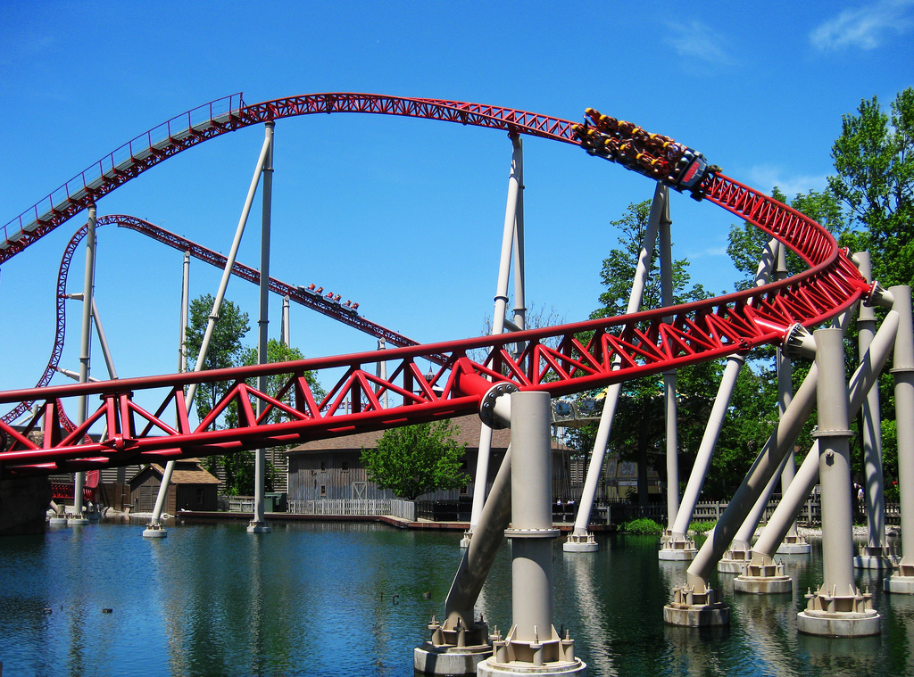 View of Maverick at Cedar Point